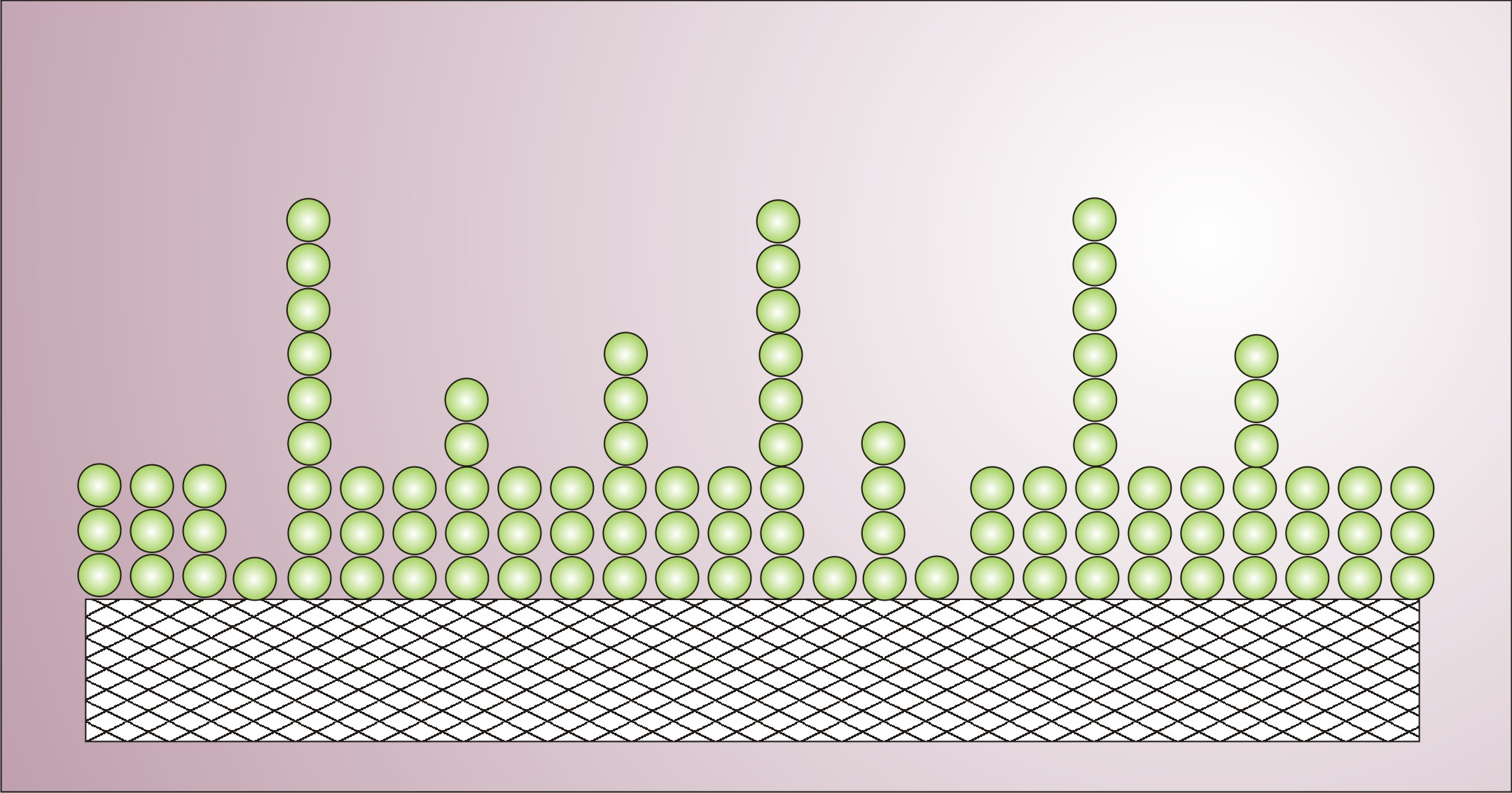 Brunauer's model of multilayer adsorption, that is, a random distribution of sites covered by one, two, three, etc, adsorbate molecules